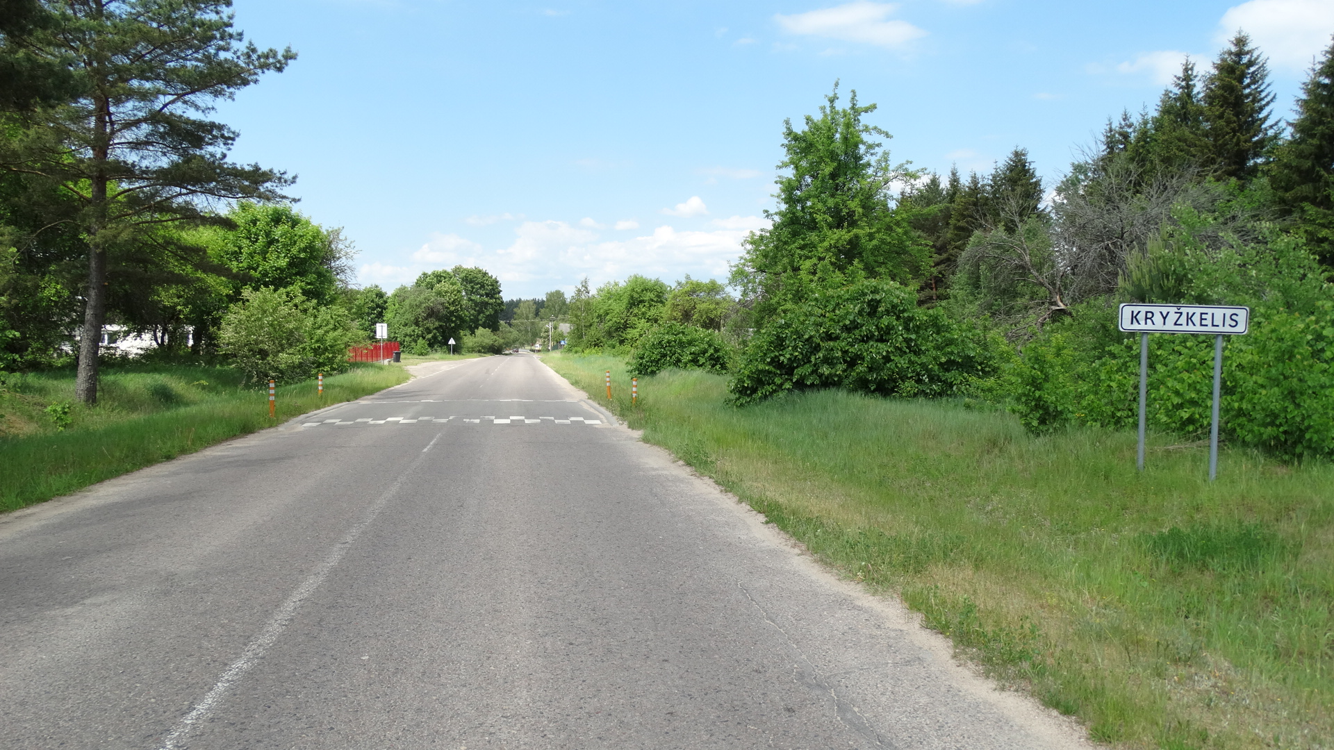 Kryžkelis, Vilnius District, Lithuania